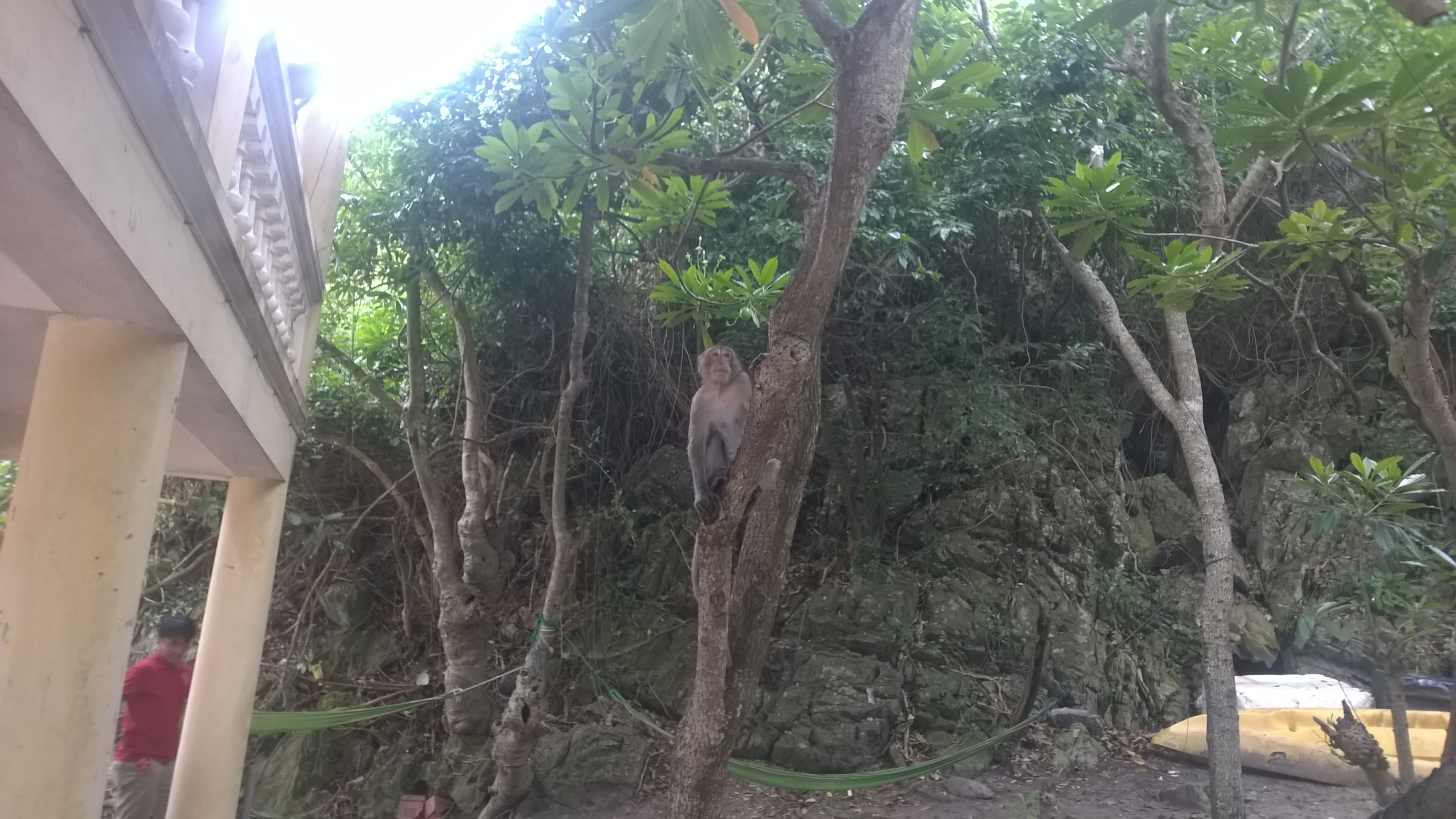 A Monkey park in the Cat Ba district in 2015.